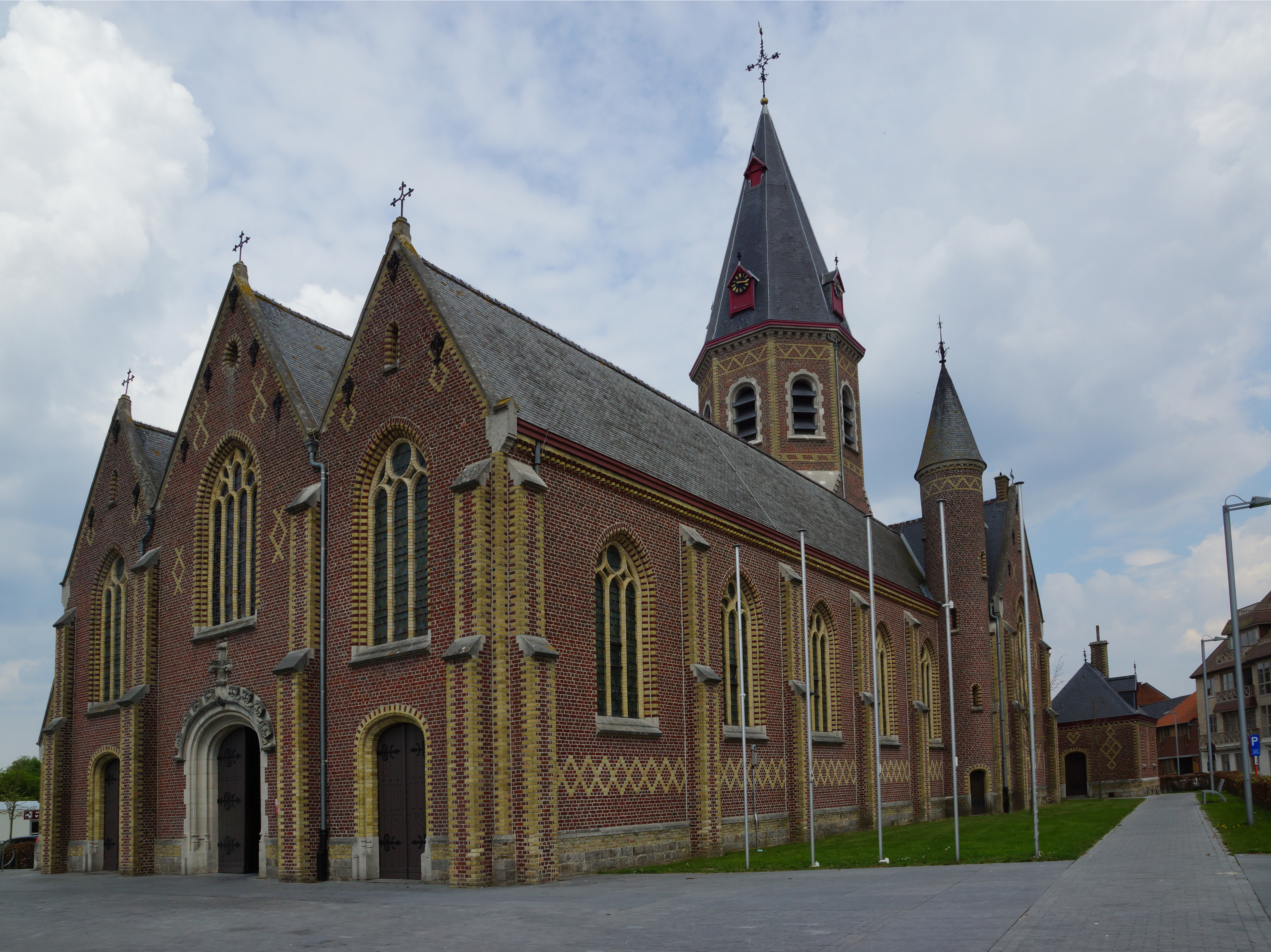 Staden (Oostnieuwkerke), Belgium: Maria's Church West and South side